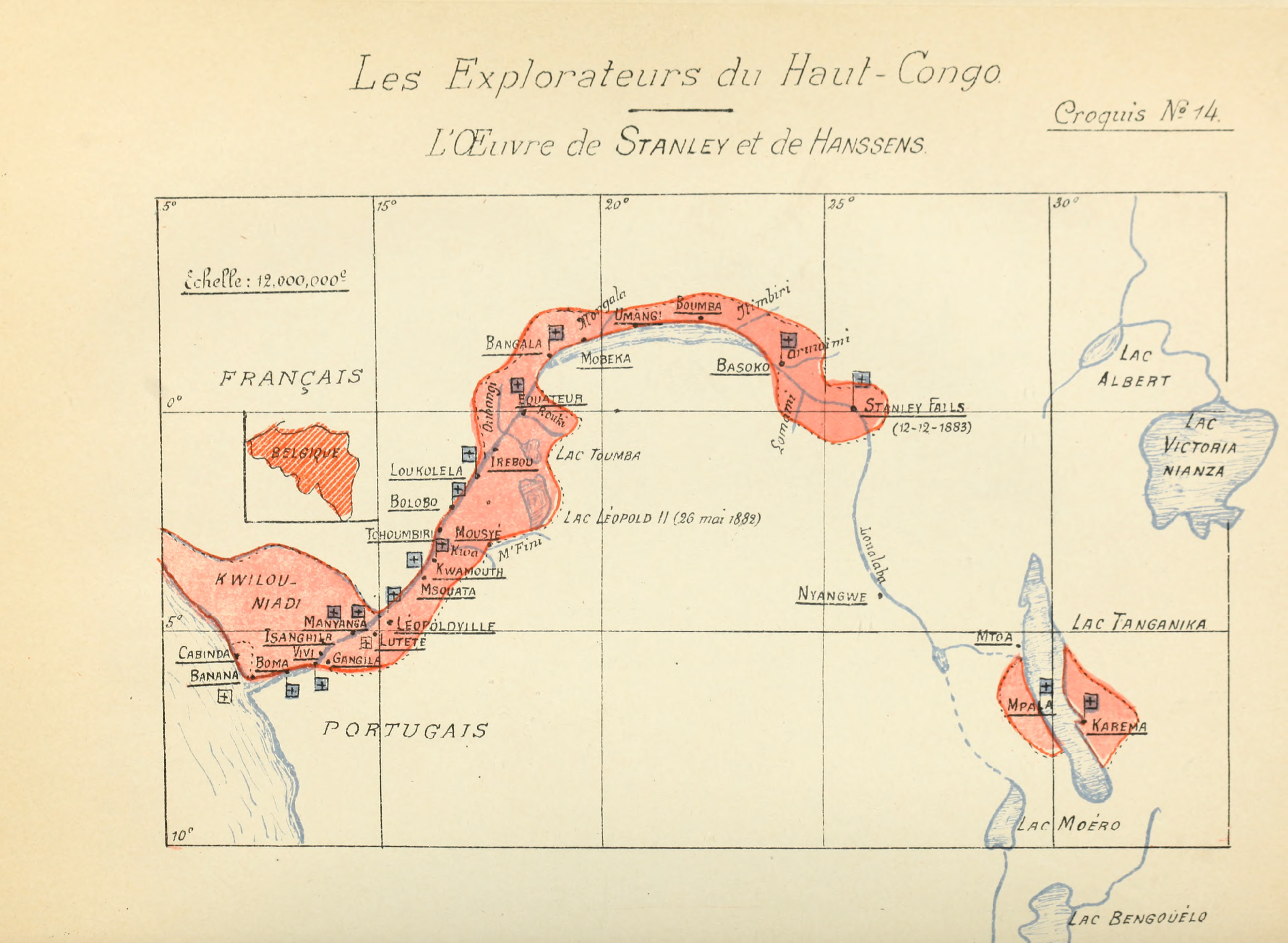 Map of explorations undertaken in Africa at end of 19th century